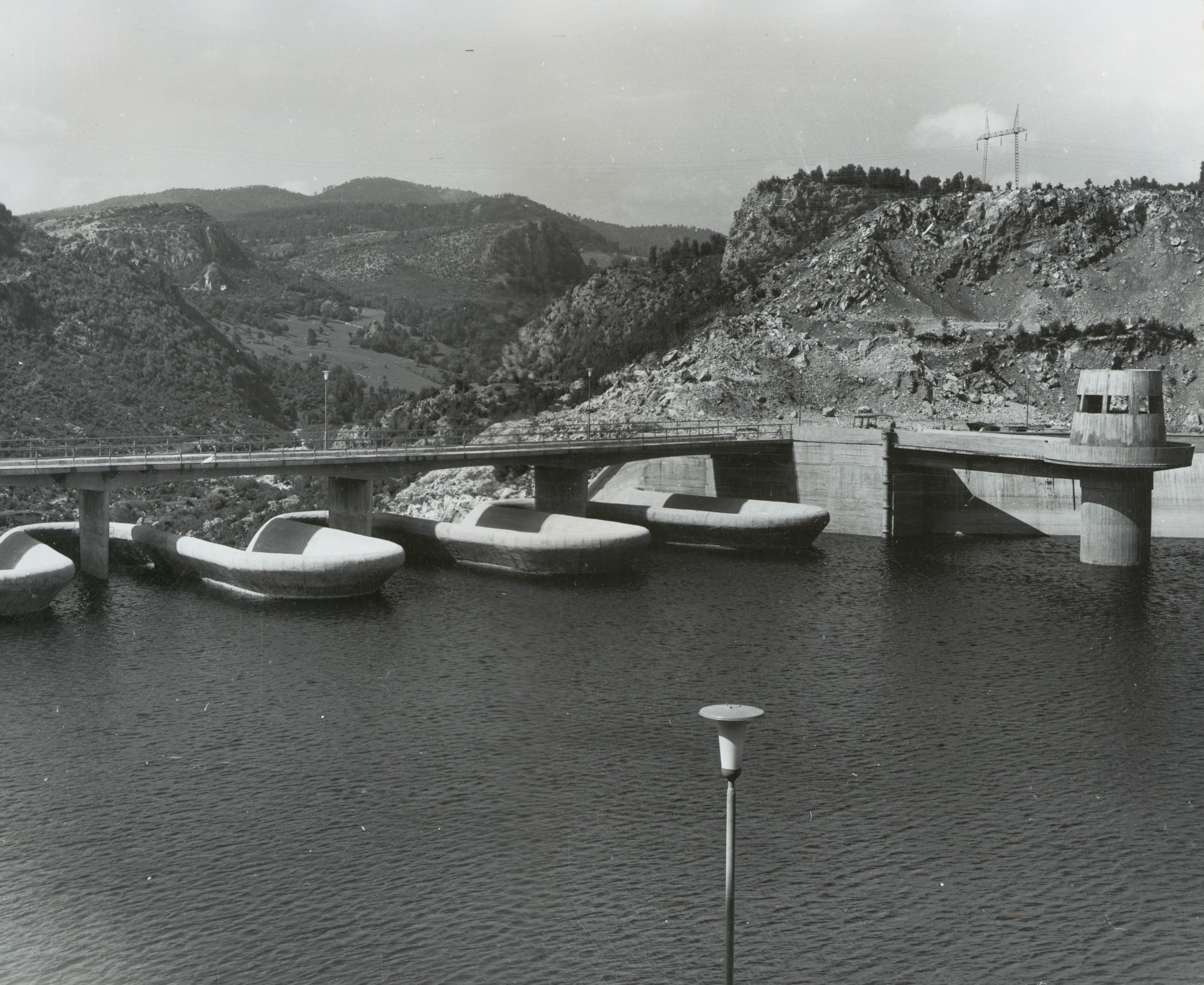 Radoinja dam.